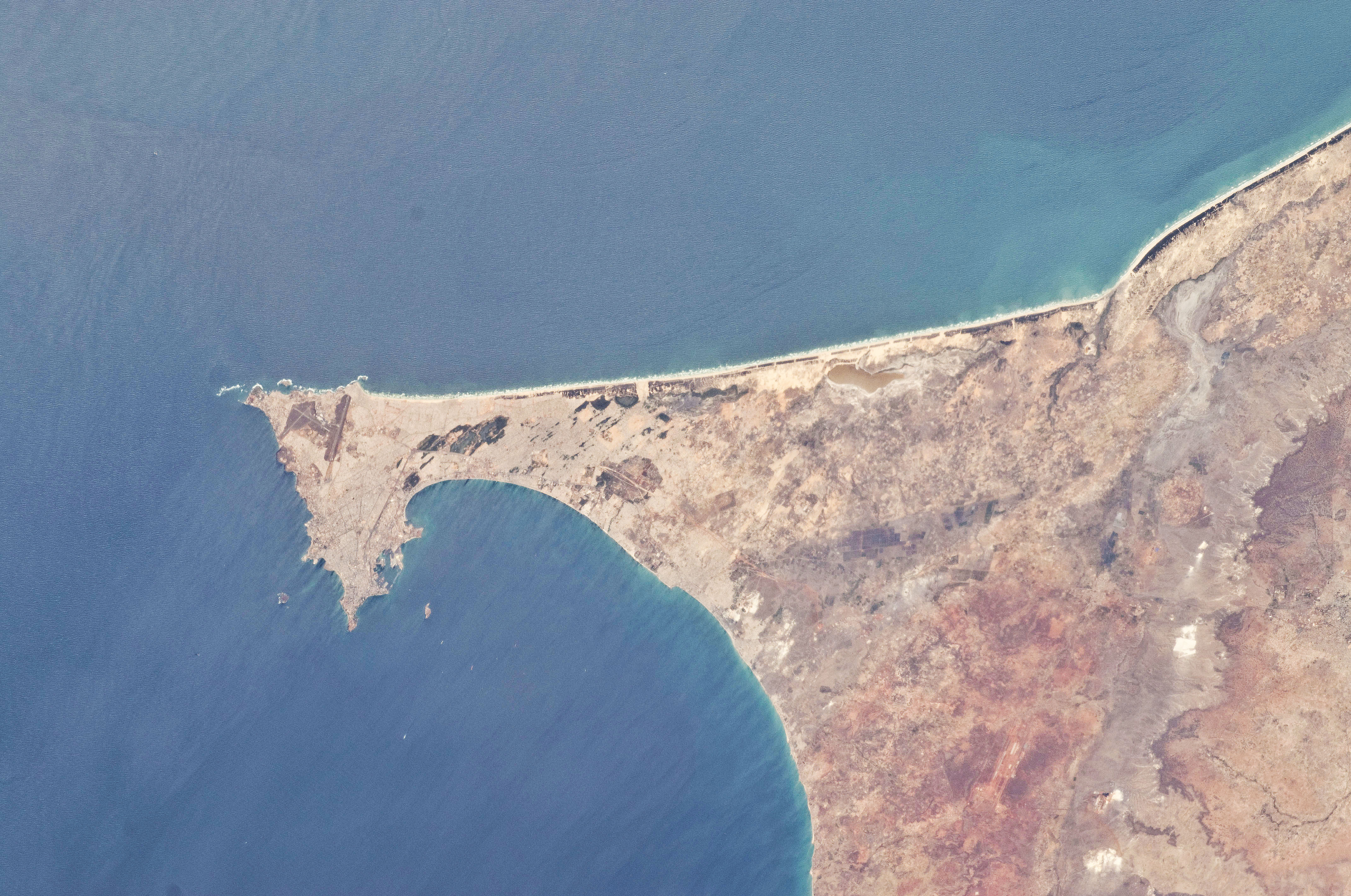 Astronaut Photo of Dakar, Senegal taken from the International Space Station (ISS) during Expedition 27 on May 6, 2011.